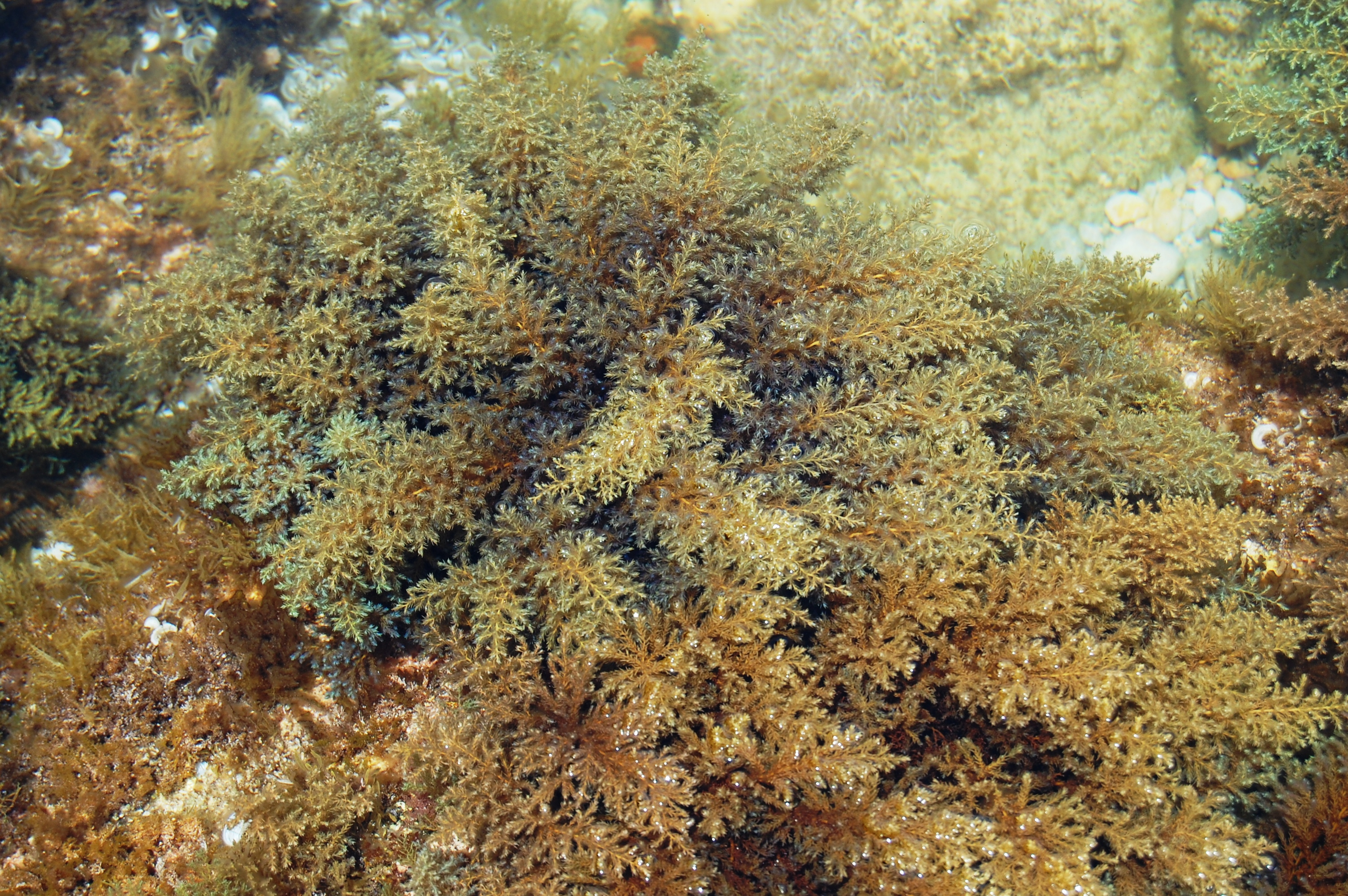 Cystoseira sp. - Mediterranean Sea